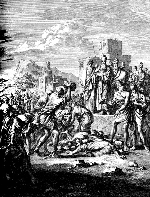 copper engraving of the stoning of Naboth